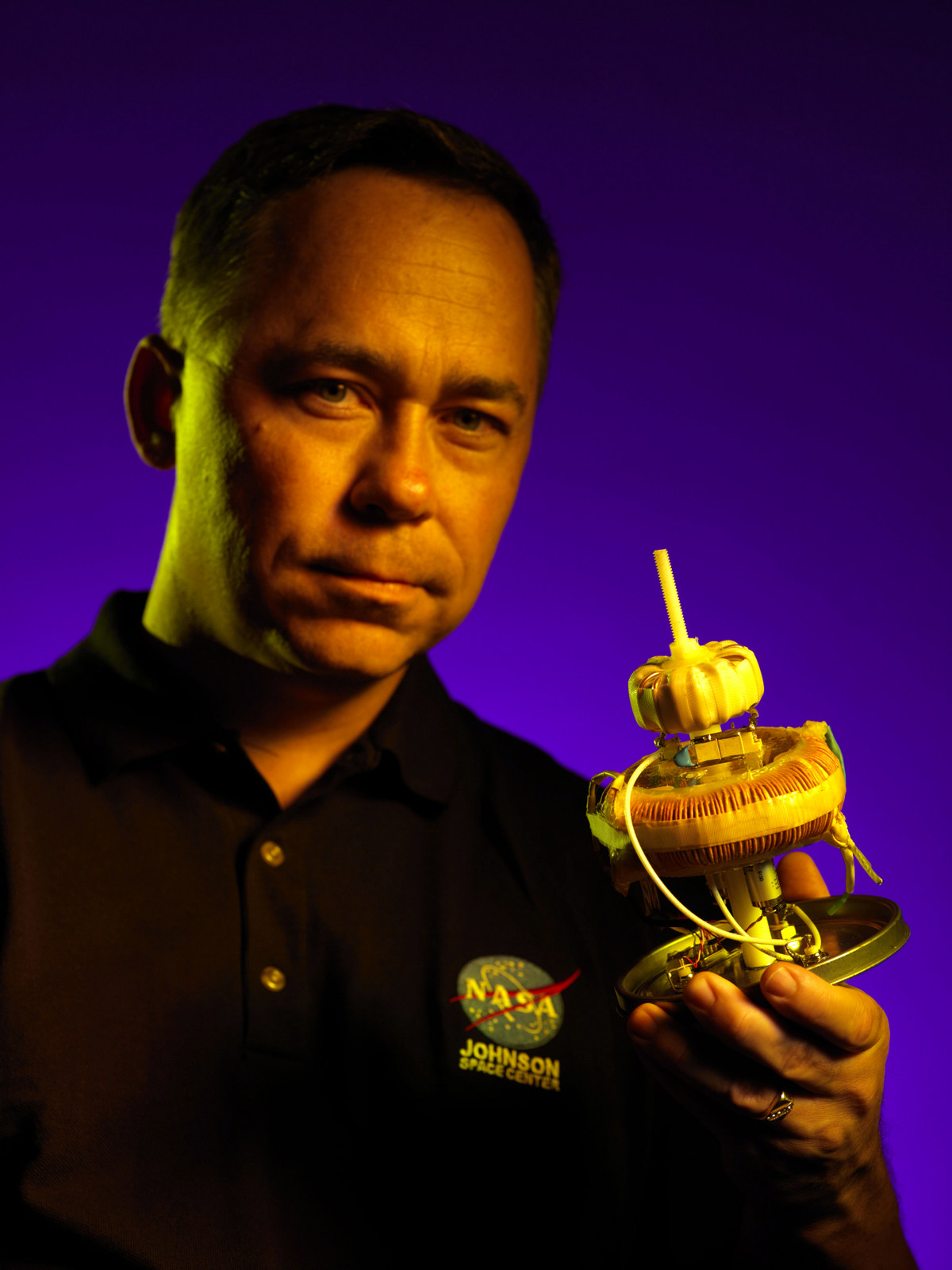 NASA file photo of Harold Sonny White taken by Robert Markowitz.